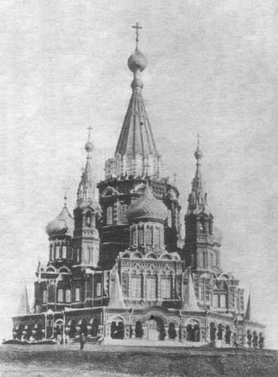 Old Holy Mikhail Kathedral in Izhevsk (built between 1897 and 1907). Demolished in 1937 by the Soviets. Rebuilt between 2003-07